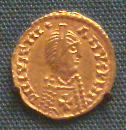 Spanish_Visigothic_gold_tremisses_in_the_name_of_emperor_Justinian_I_with_cross_on_breast_7th_century.